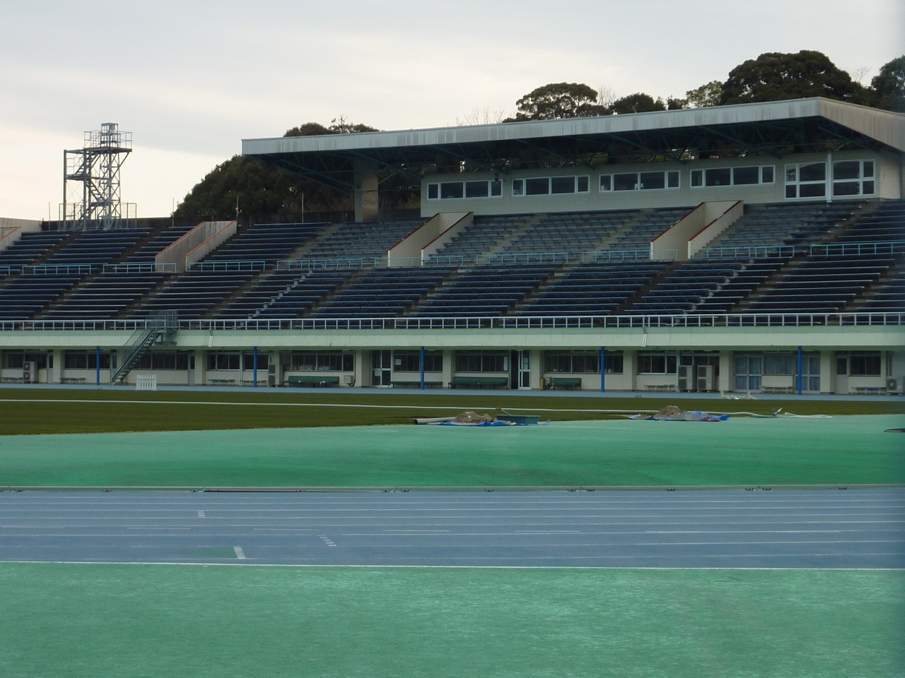 Nishishina Stadium (Nobeoka City, Miyazaki Prefecture, Japan)